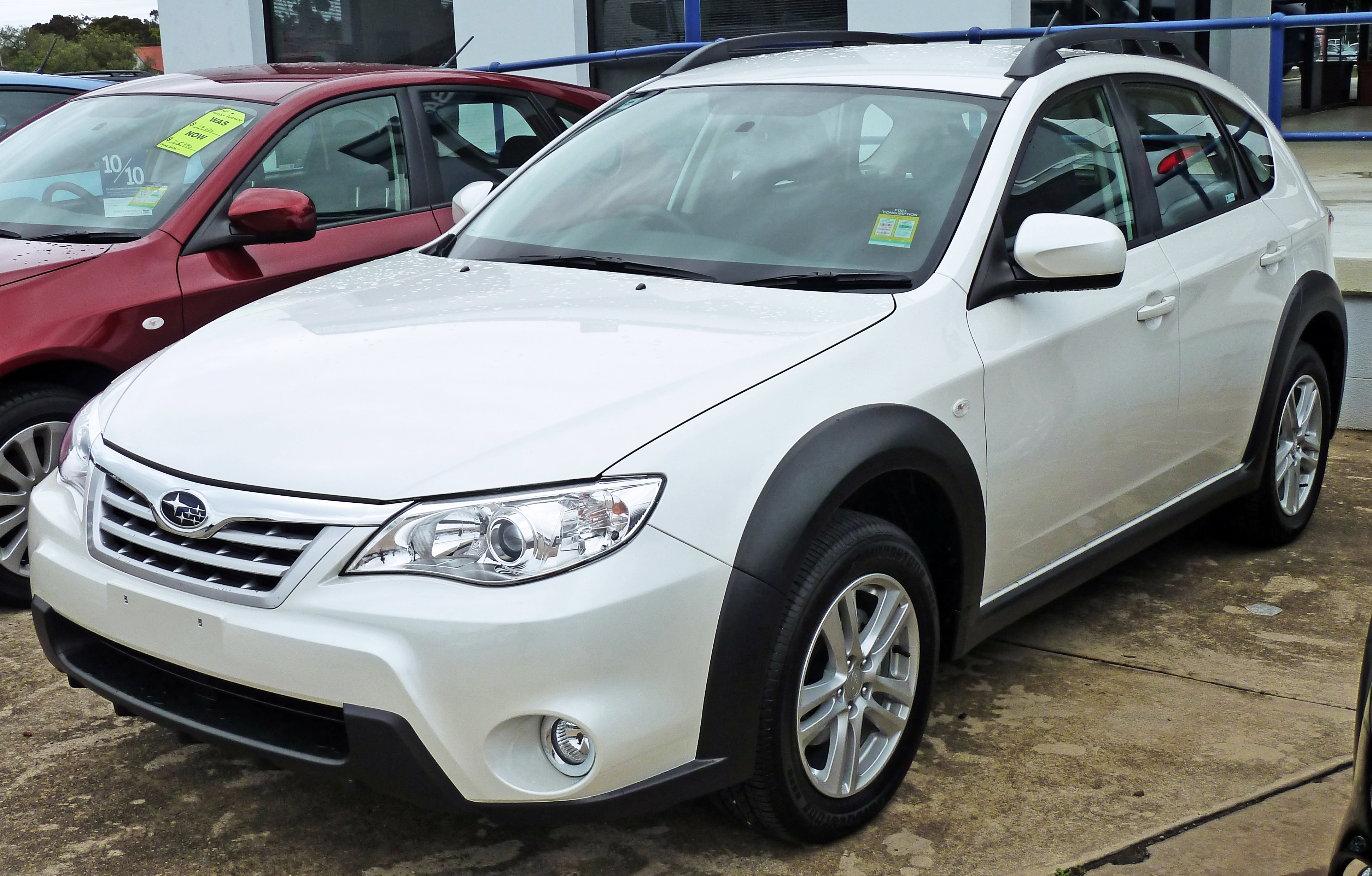 2010 Subaru Impreza (GH7 MY11) XV hatchback. Photographed at Suttons Subaru, Chullora, New South Wales, Australia.